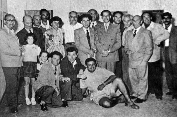 opening of the 5th Ofakim Hadasim exhibition at the Tel Aviv Museum, November 1953.